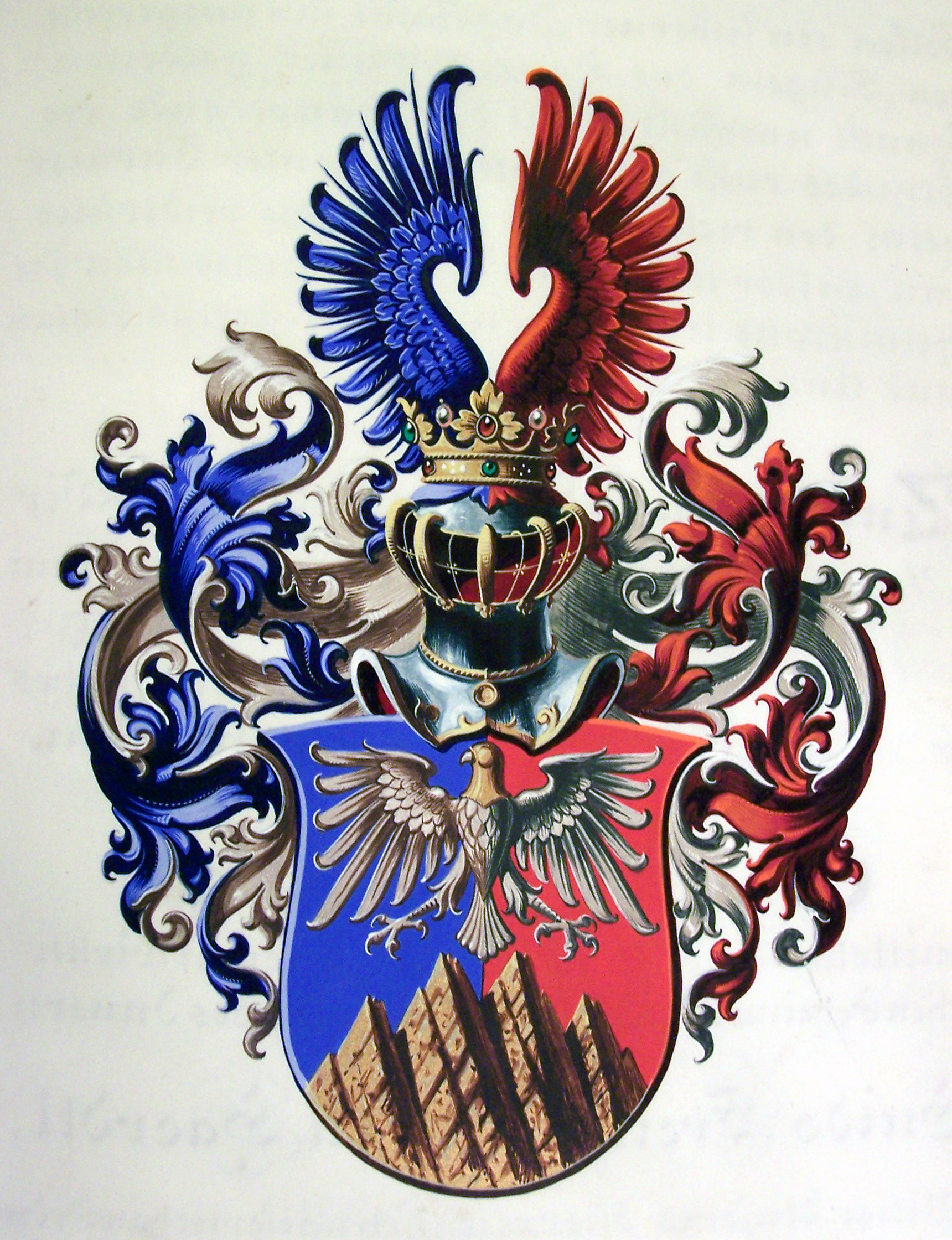 Coat of arms of the family (Edler von) Šuklje